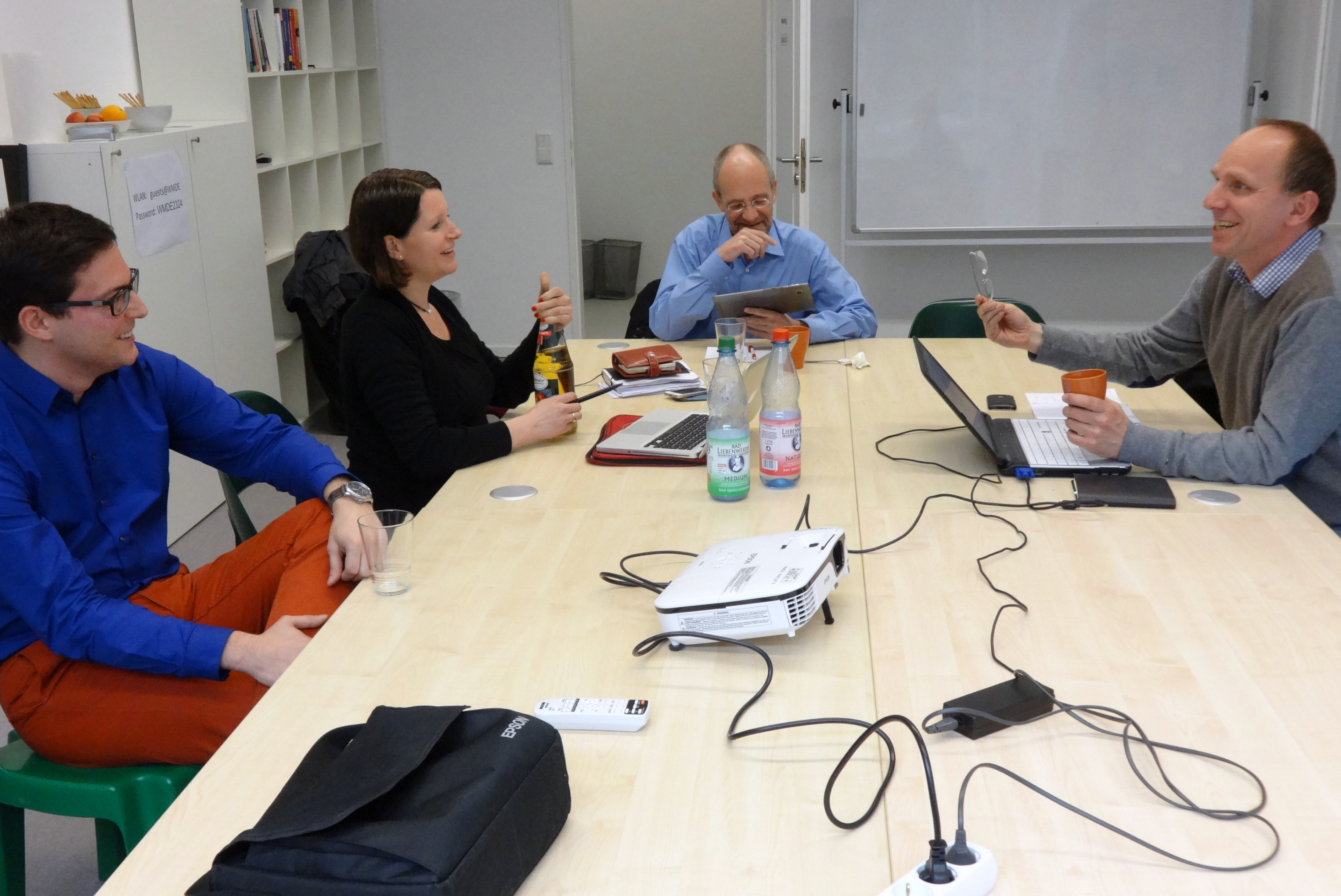 Meeting of the Jury for the Zedler award 2014 (Category I) @ Wikimedia Deutschland.